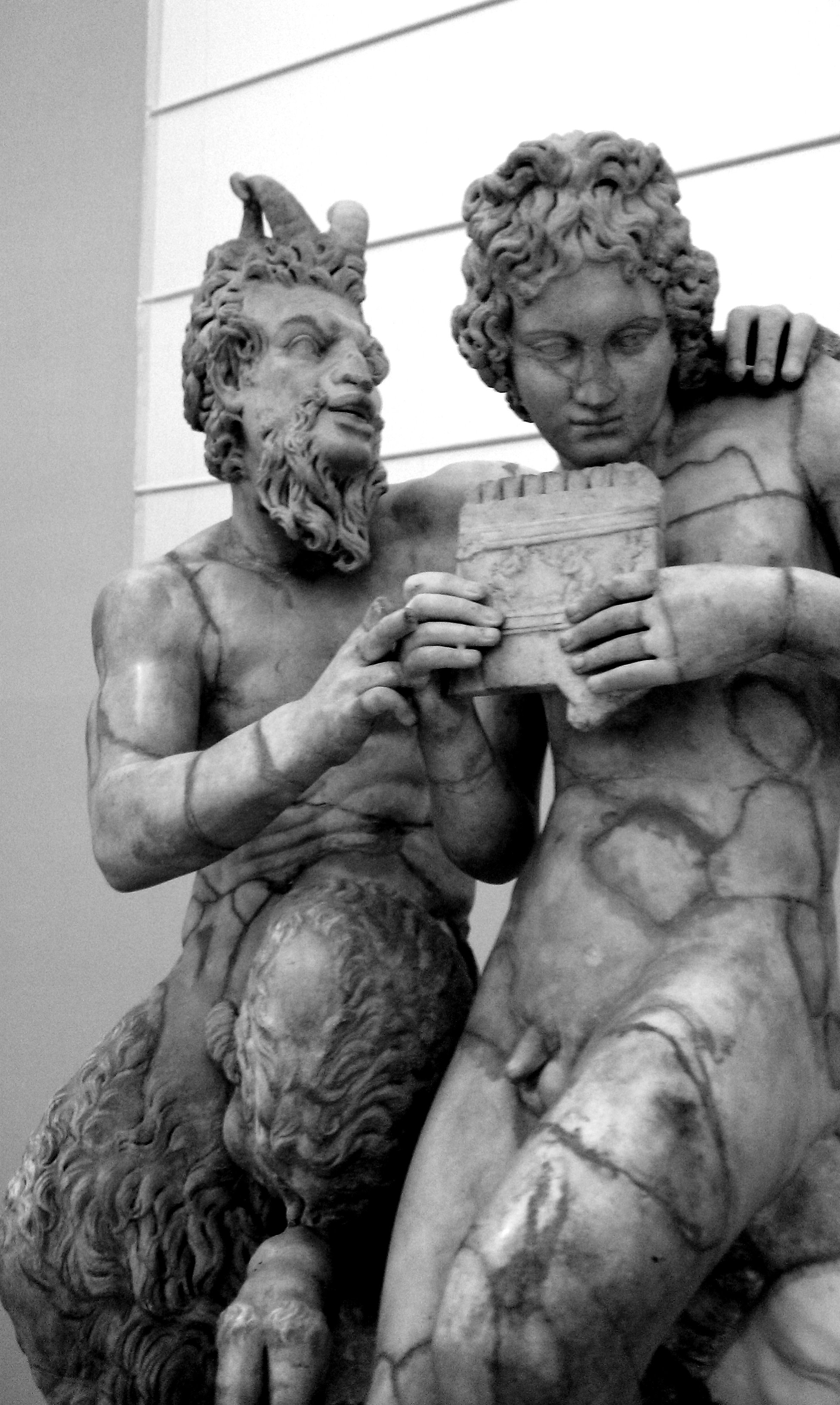 Pan and Daphnis - Late 2nd C AD copy of original from late 2nd C BC Rhodes.